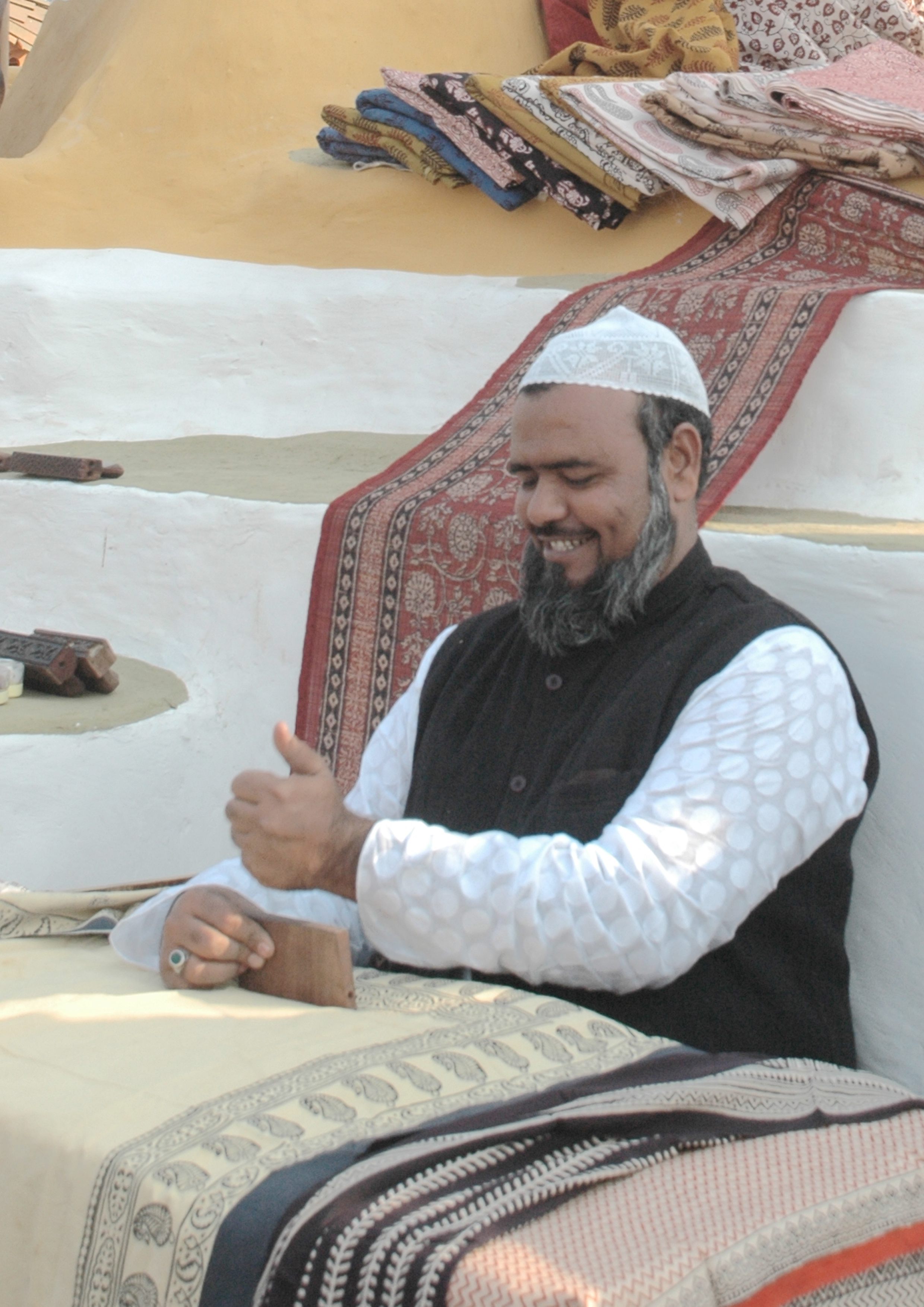 Muhammad yusuf khatri giving live demo of bagh print